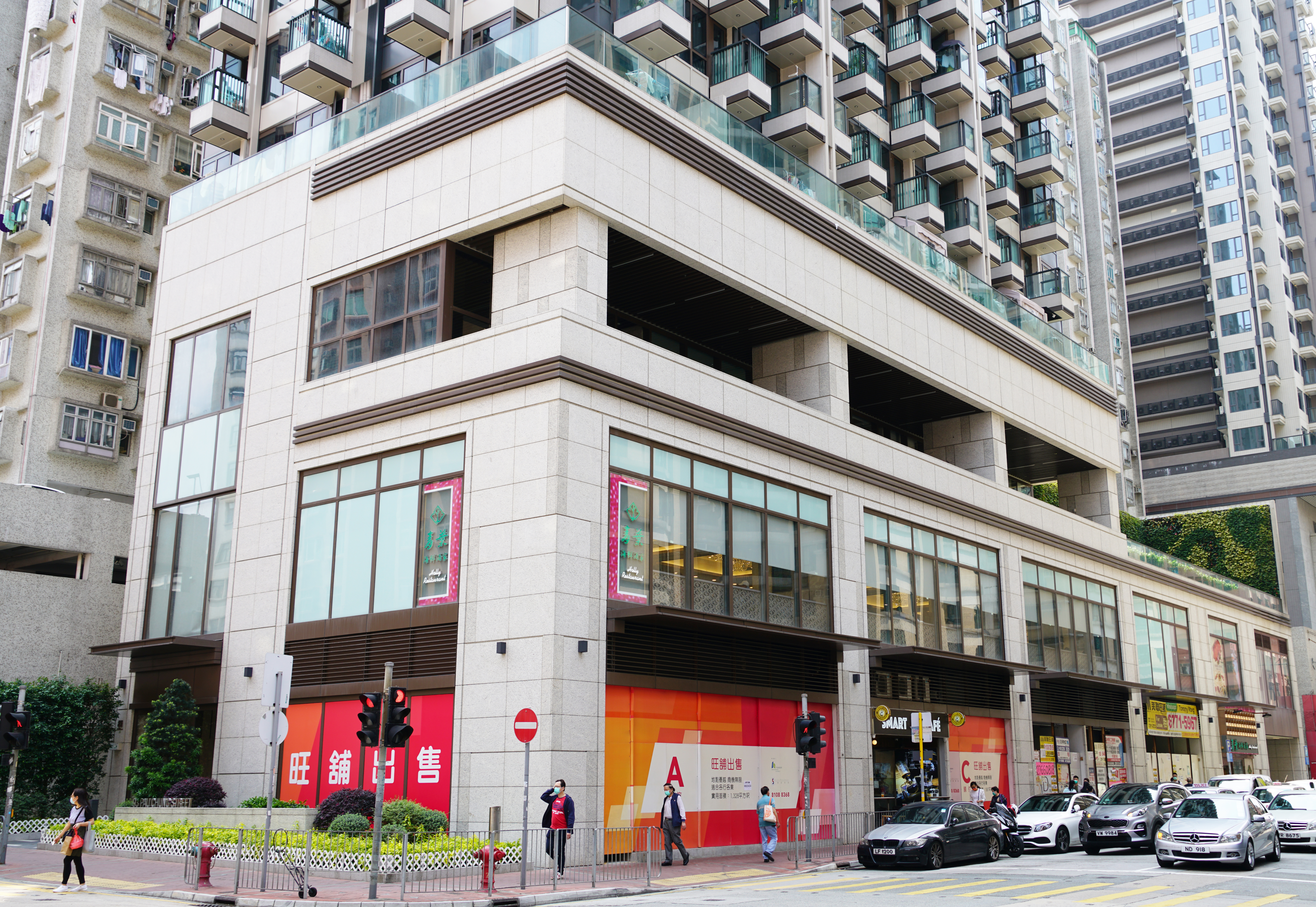 93 Pau Chung Street, Hong Kong.